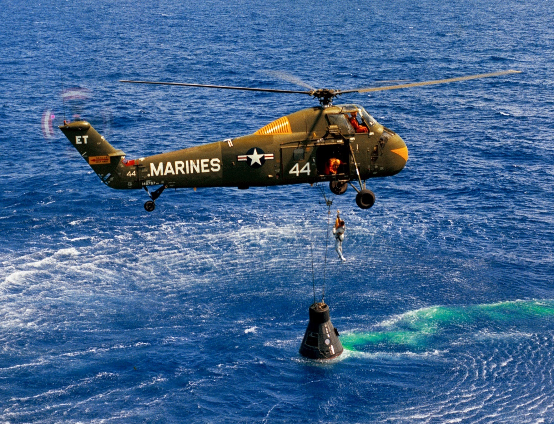 Astronaut Alan B. Shepard Jr. is rescued by a U.S. Marine helicopter at the termination of his suborbital flight May 5, 1961, down range from the Florida eastern coast.